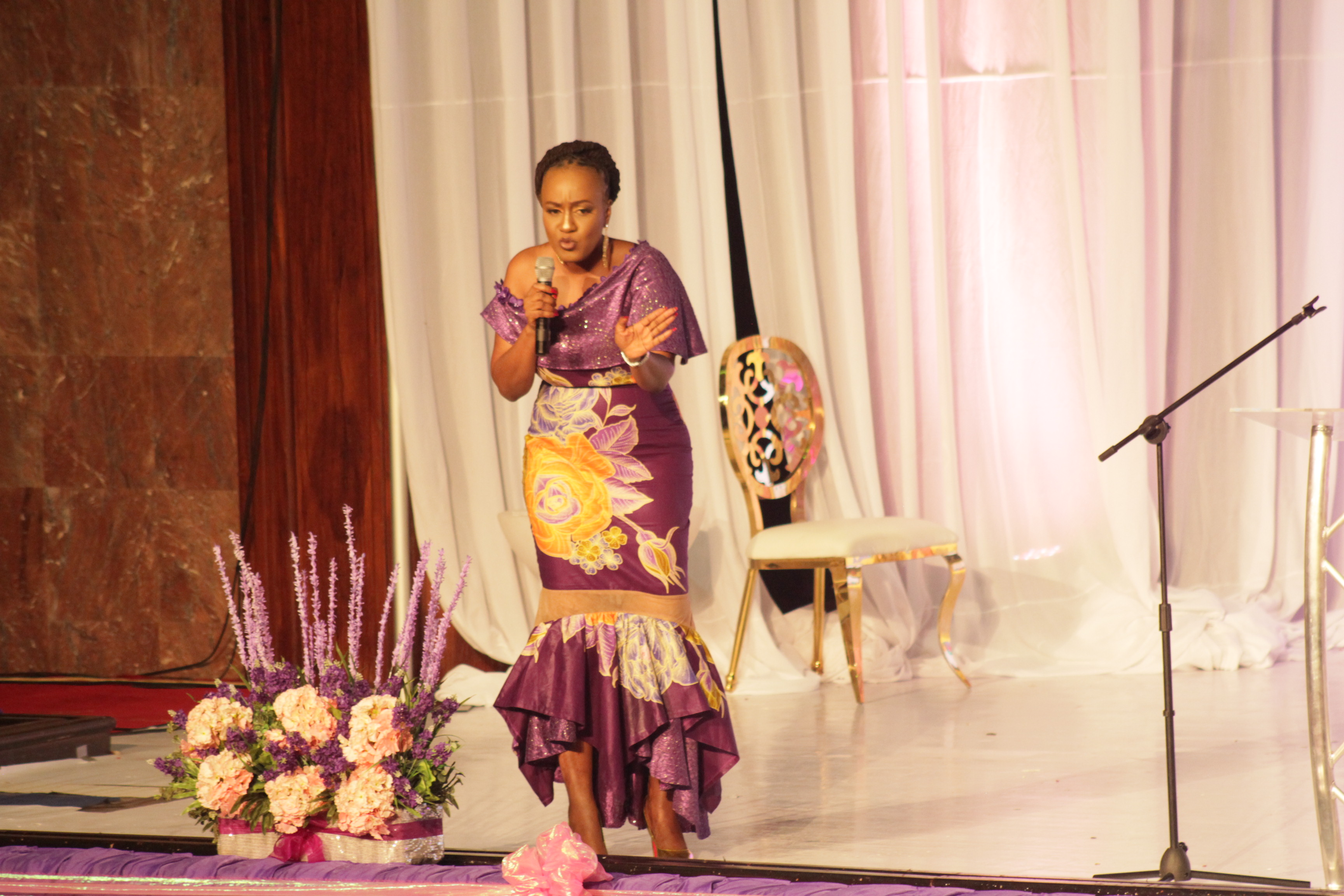 Dzigbordi delivering a presentation during the International Women's Summit in Accra, Ghana.